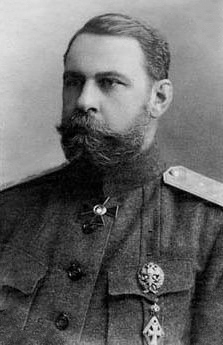 Vladimir Nikolayevich Ipatieff (also Ipatiev 1867 - 1952)